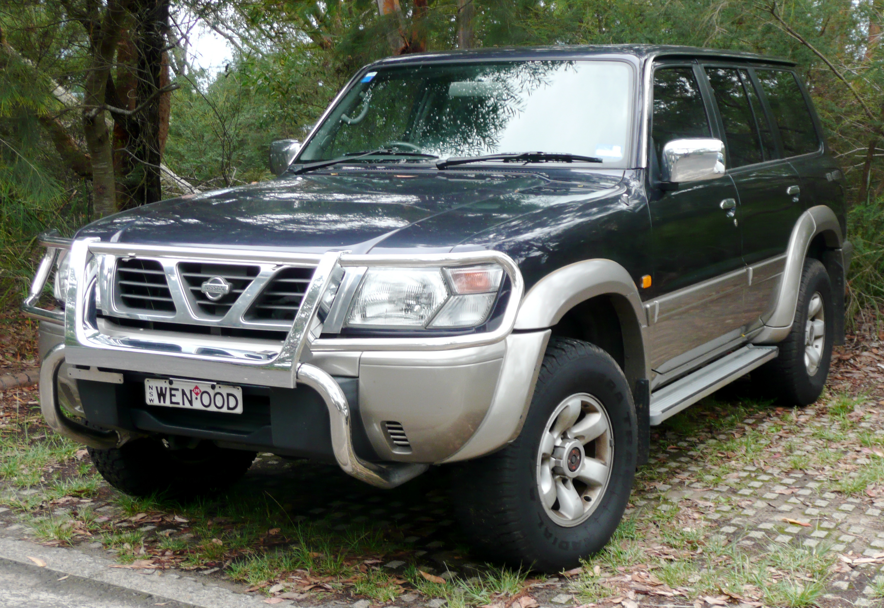 1997–2000 Nissan Patrol (GU) Ti 5-door wagon. Photographed in Audley, New South Wales, Australia.